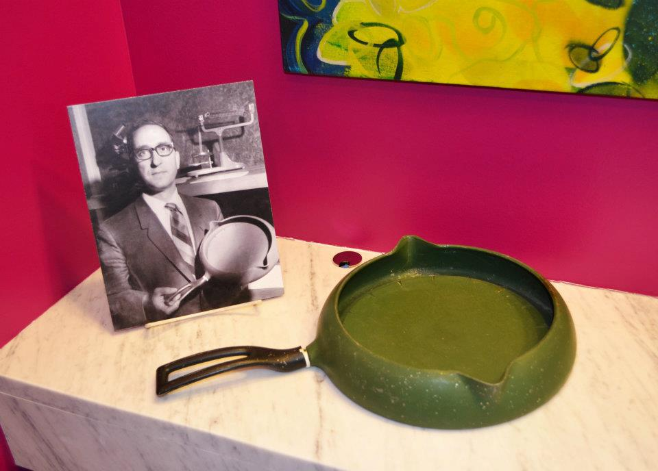 the 2nd pan created my Marion Trozzolo